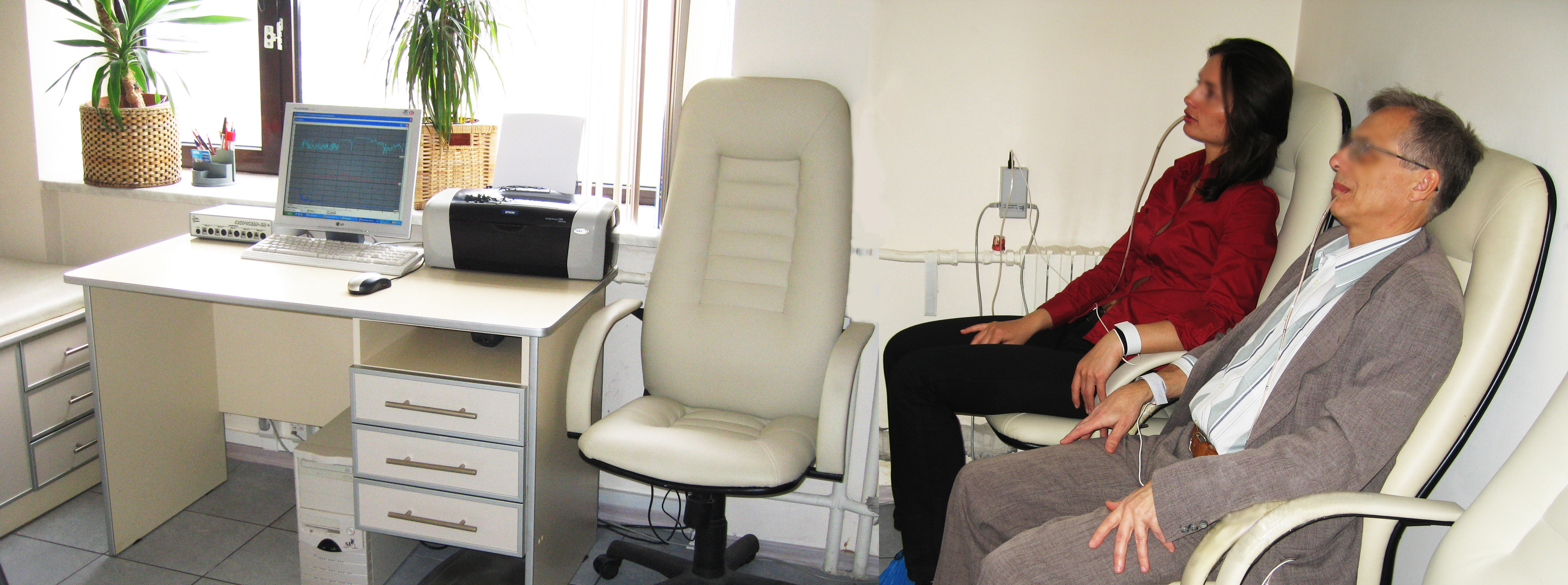 pH-metry (Gastroscan-5M) in On Clinik (Moscow)